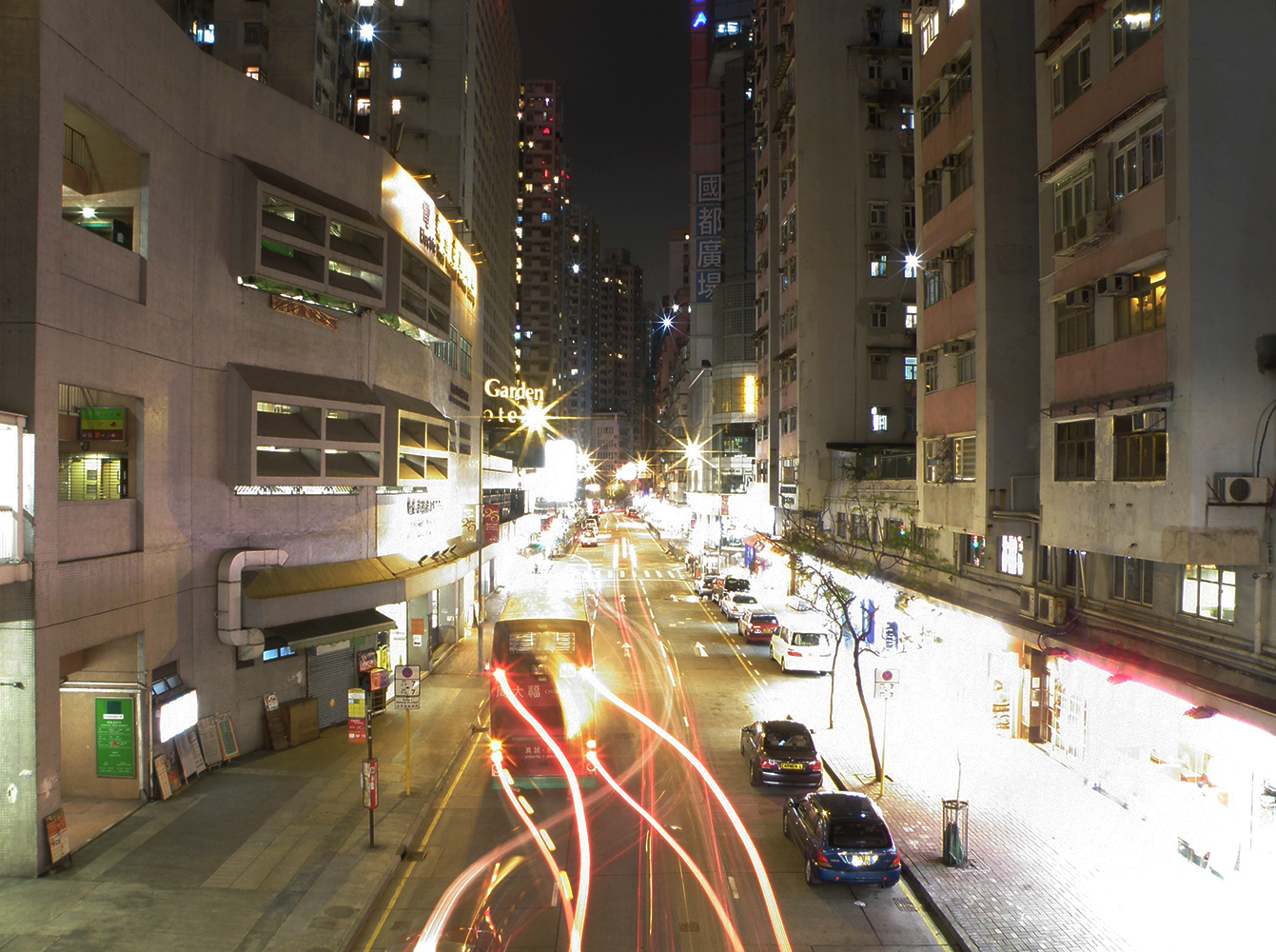 Electric Road in Fortress Hill, Hong Kong.